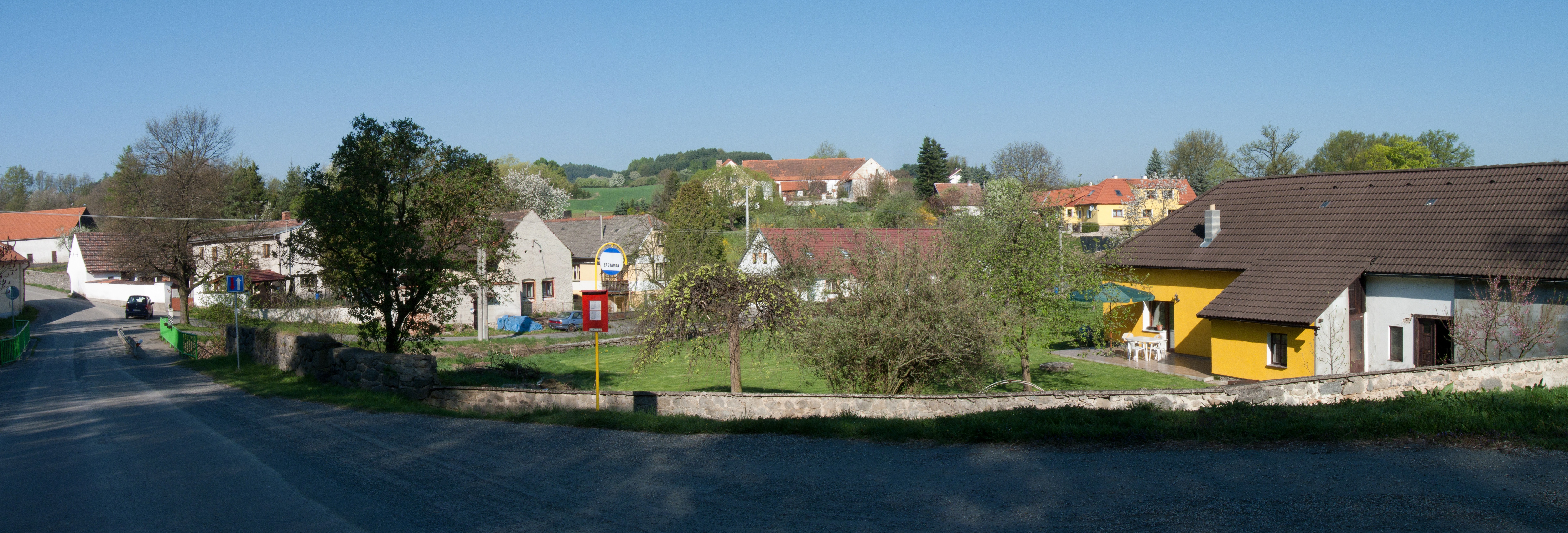 Panorama of the village of Jinín, Strakonice District, Czech Republic.